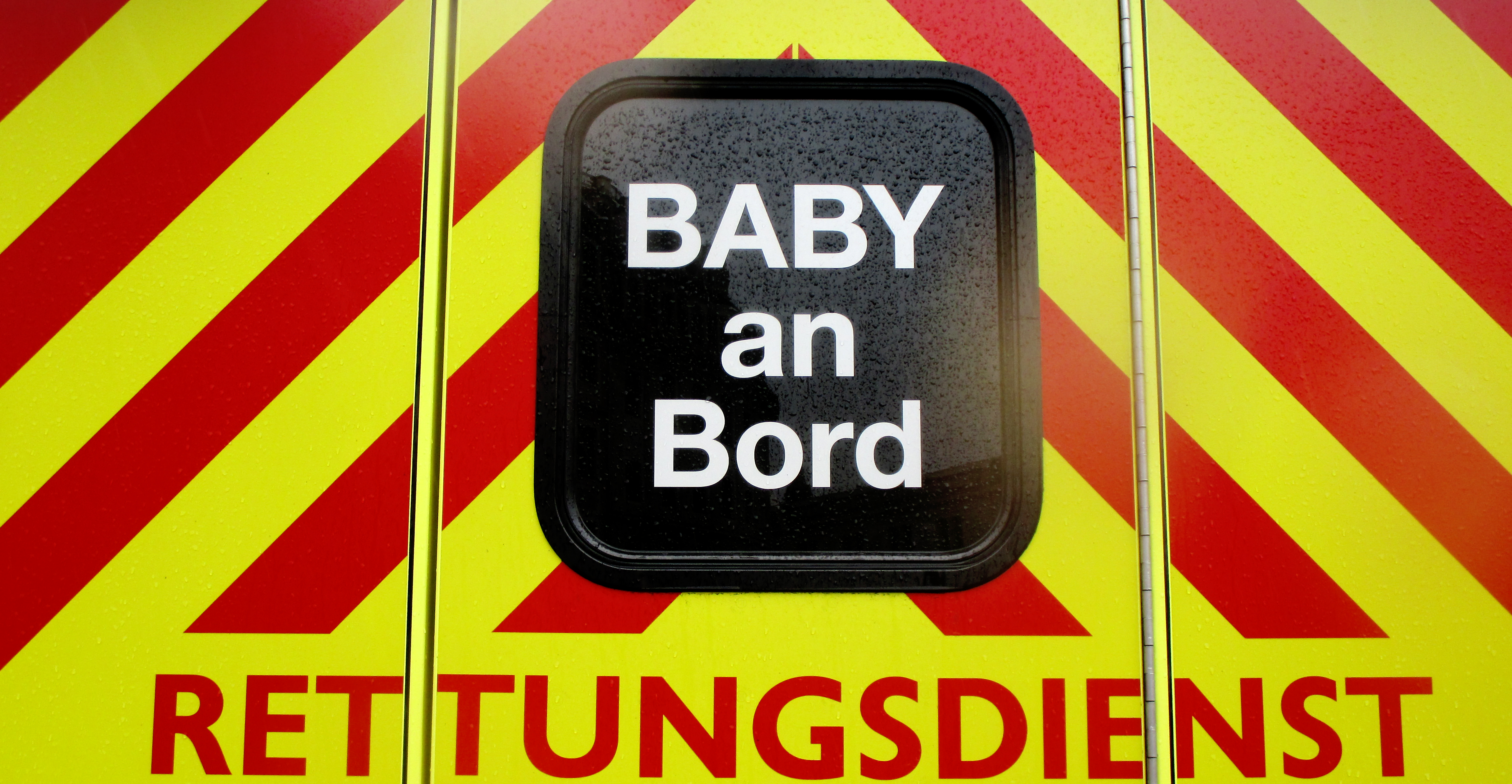 7. Internationaler Florianstag (Dresden) - Öffentlicher Festumzug der Feuerwehr Dresden - Altmarkt bis Neumarkt - Vorführungen der Feuerwehr -Rettungsdienst Fahrzeuge - Baby Rettungswagen - vor der Frauenkirche - Bild 022